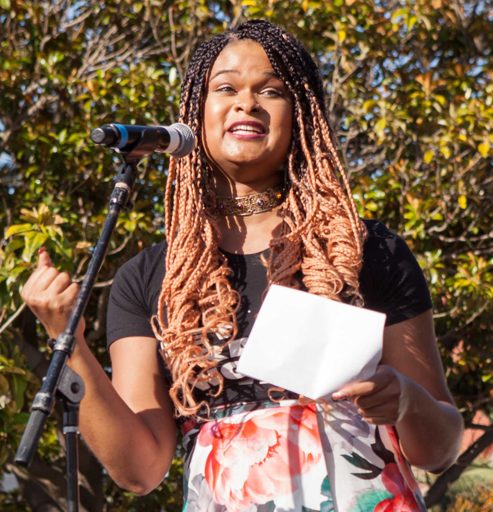 Raquel Willis speaks on stage at Trans March San Francisco 2017.